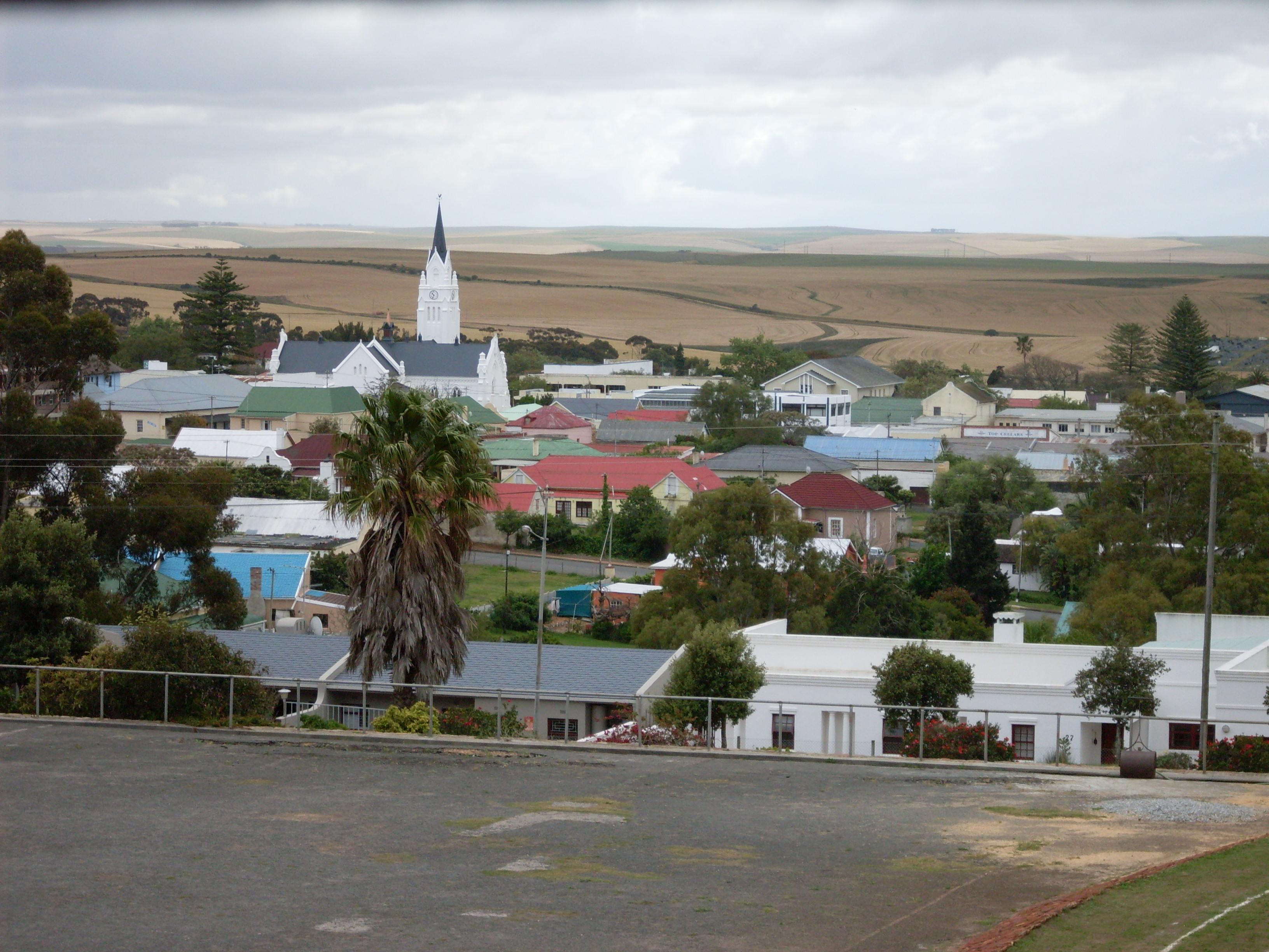 This photograph was taken from inside a class room at Bredasdorp High School, October 22, 2008 at 10:33.